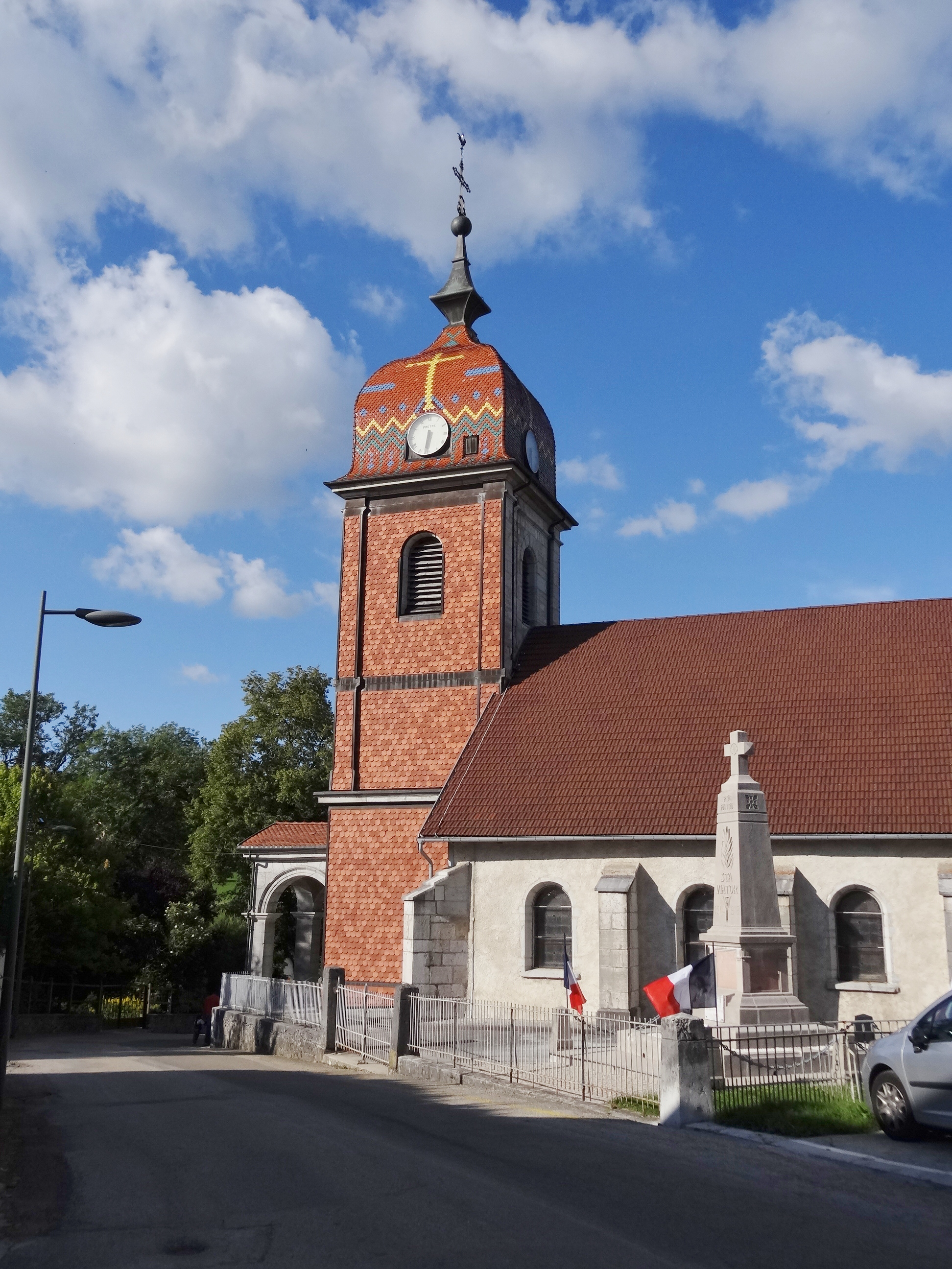 Commune de La Planée (Doubs) : église paroissiale